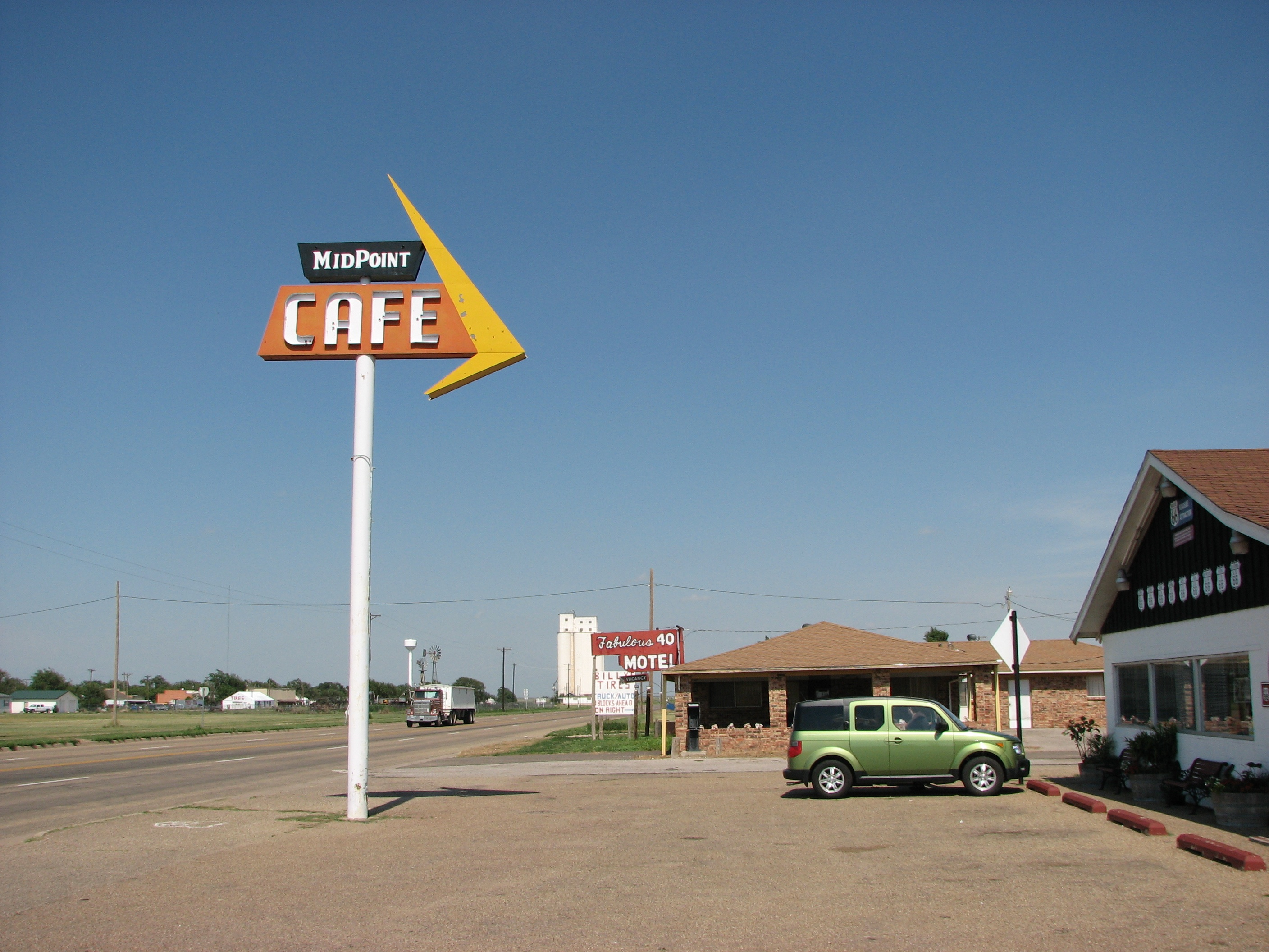 The tiny town of Adrian on U.S. Route 66 in Texas has branded itself since 1995 as the "midpoint of 66" to attract international tourism.